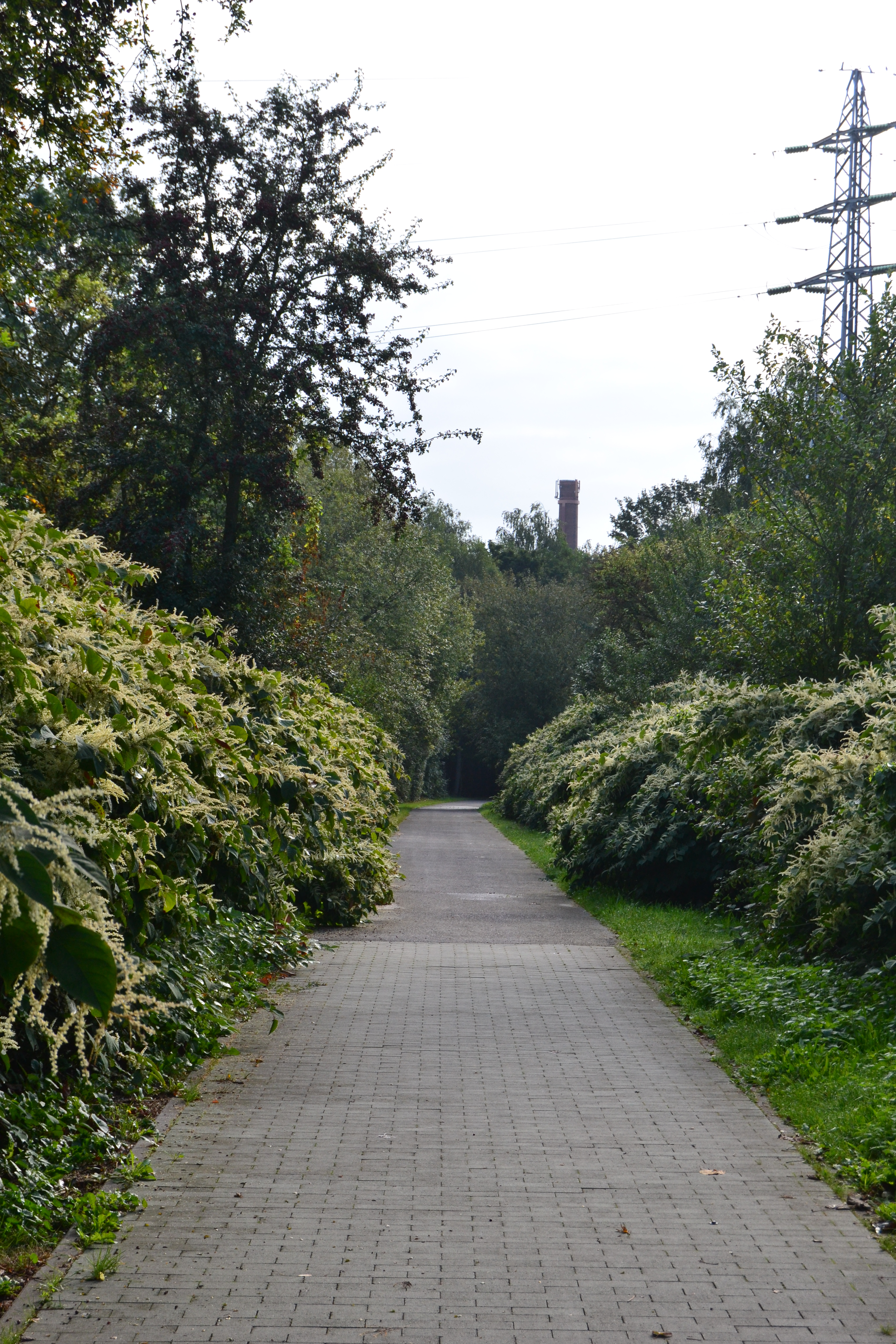 Chemney of the ancient Bure aux Femmes coal mine, Société anonyme des Charbonnages de Patience et Beaujonc réunis, Liège, Belgium)